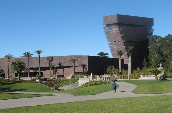 de Young art museum in Golden Gate Park, San Francisco, California